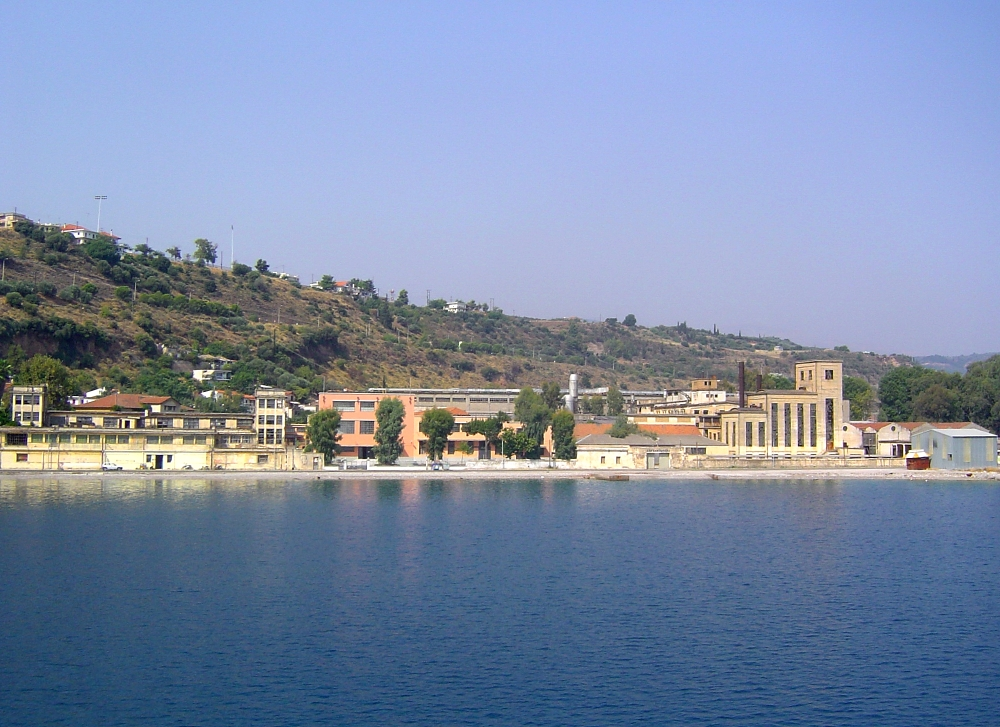 Harbor of Egio (Aigion), Peloponnes, Greece